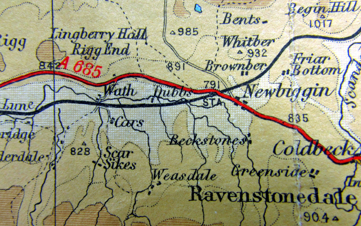 Location of Ravenstonedale railway station on 1936 map